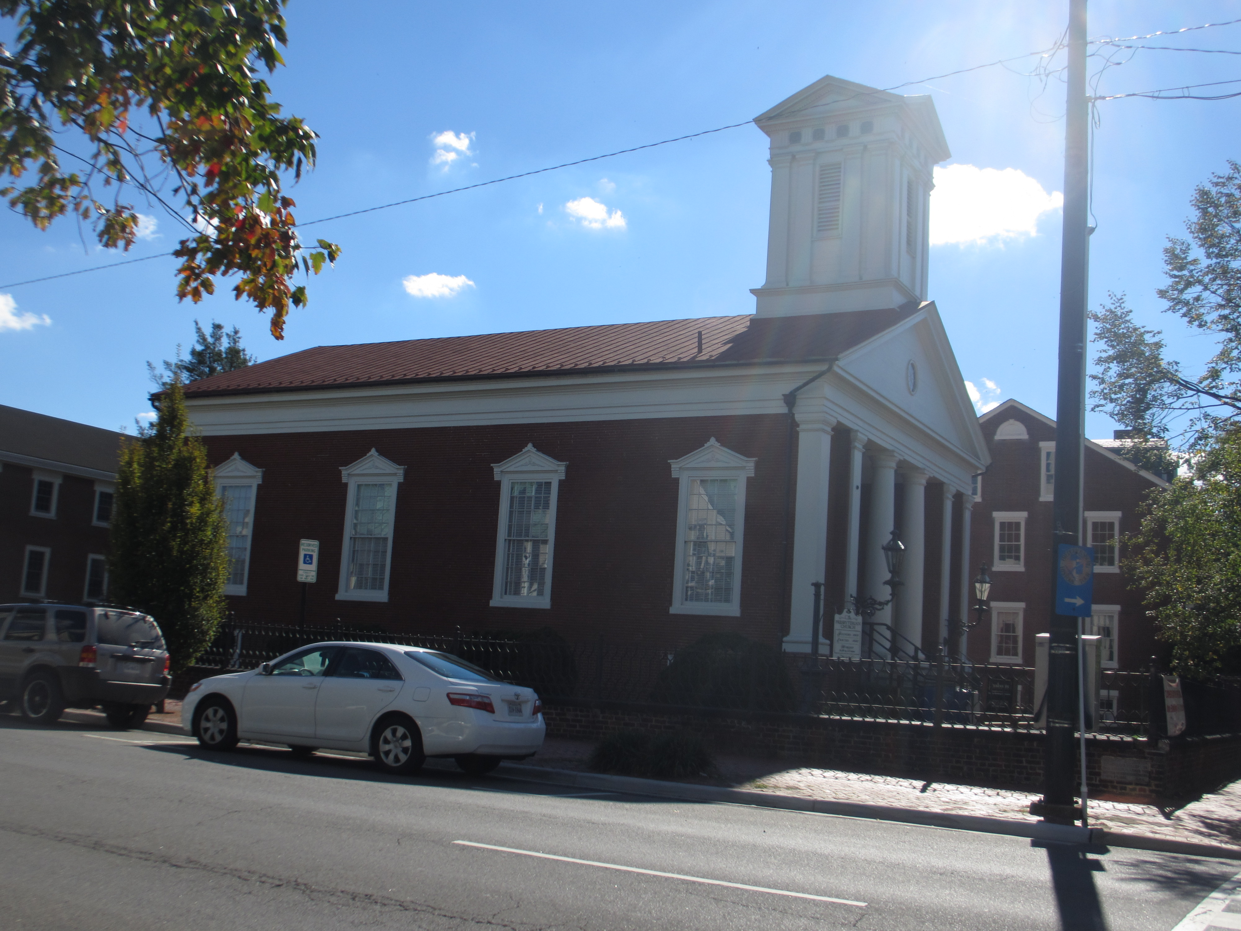 Presbyterian Church of Fredericksburg